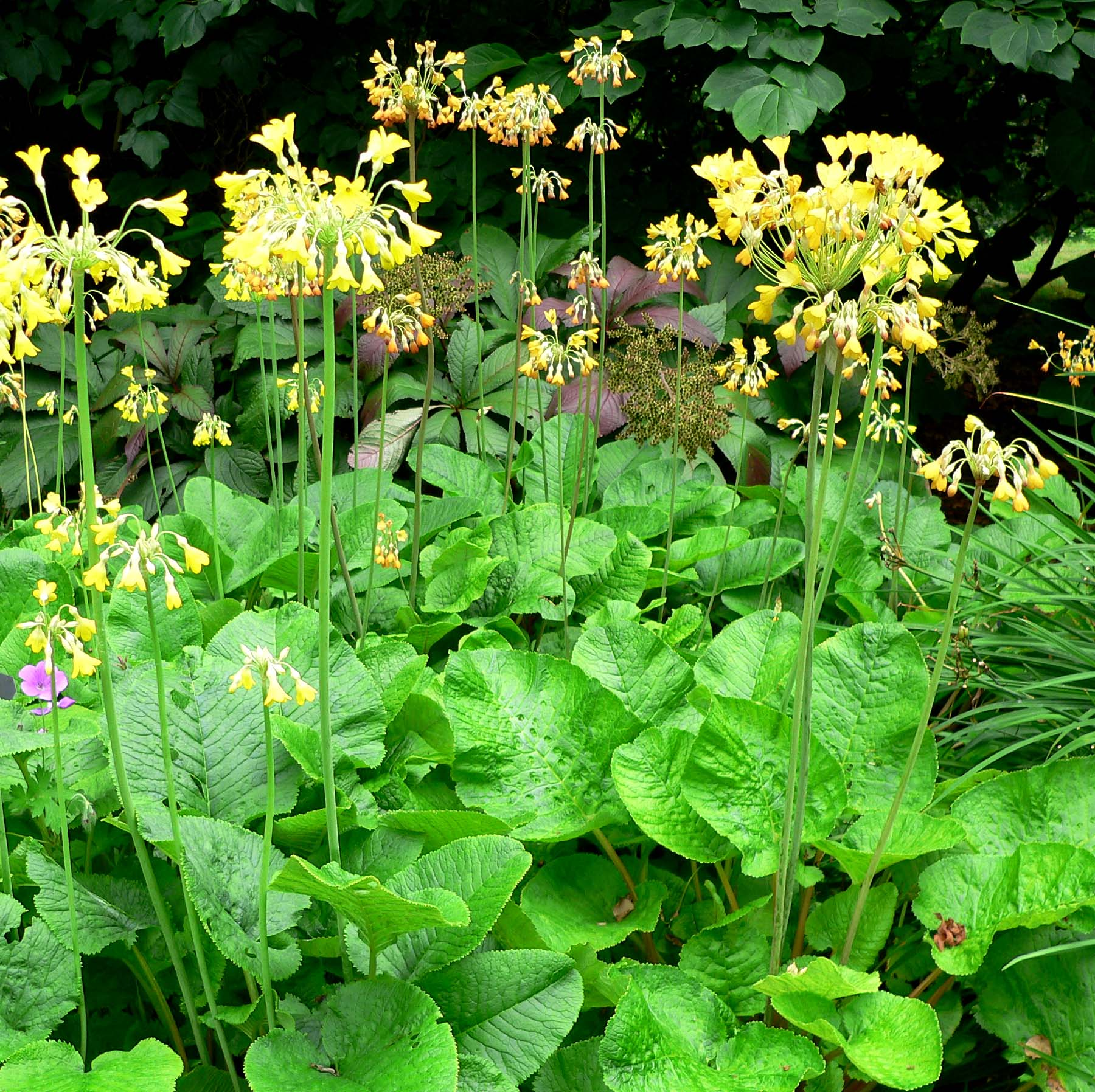 Photo of Primula florindae at the UBC Botanical Garden in Vancouver